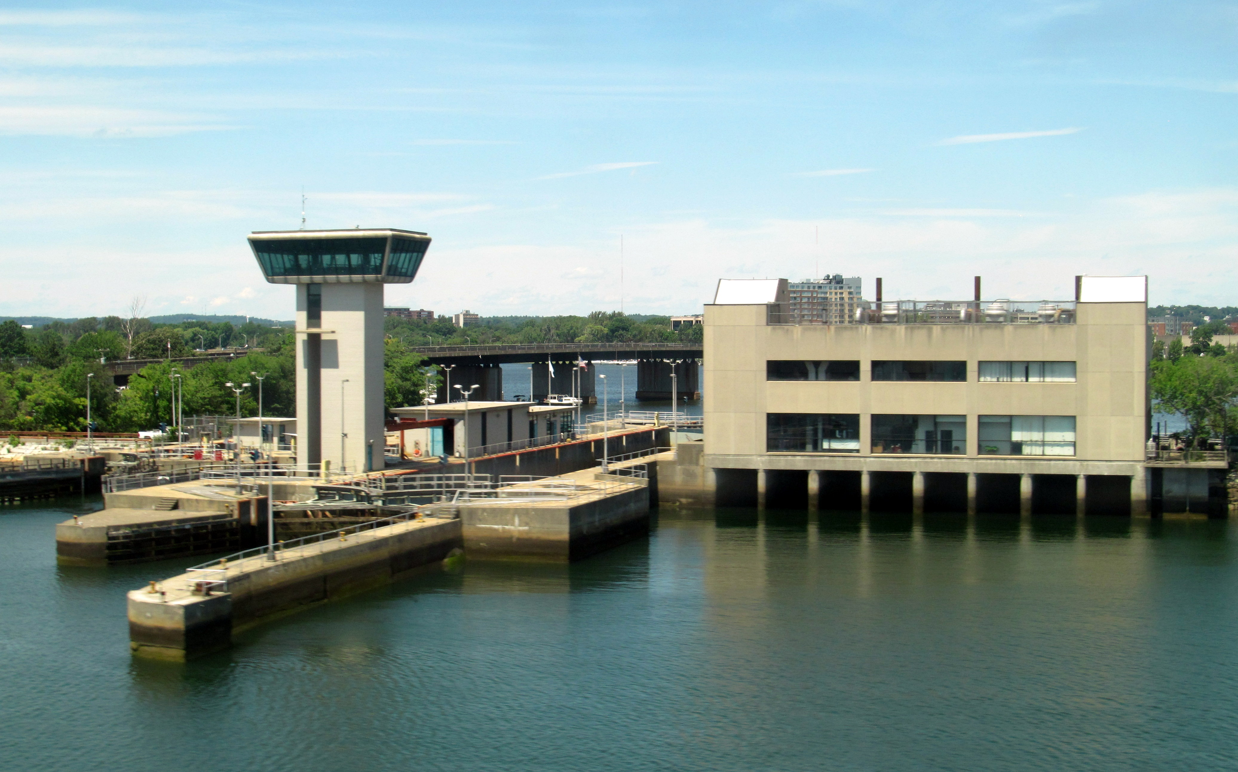 The Amelia Earhart Dam viewed from a passing MBTA train in July 2016